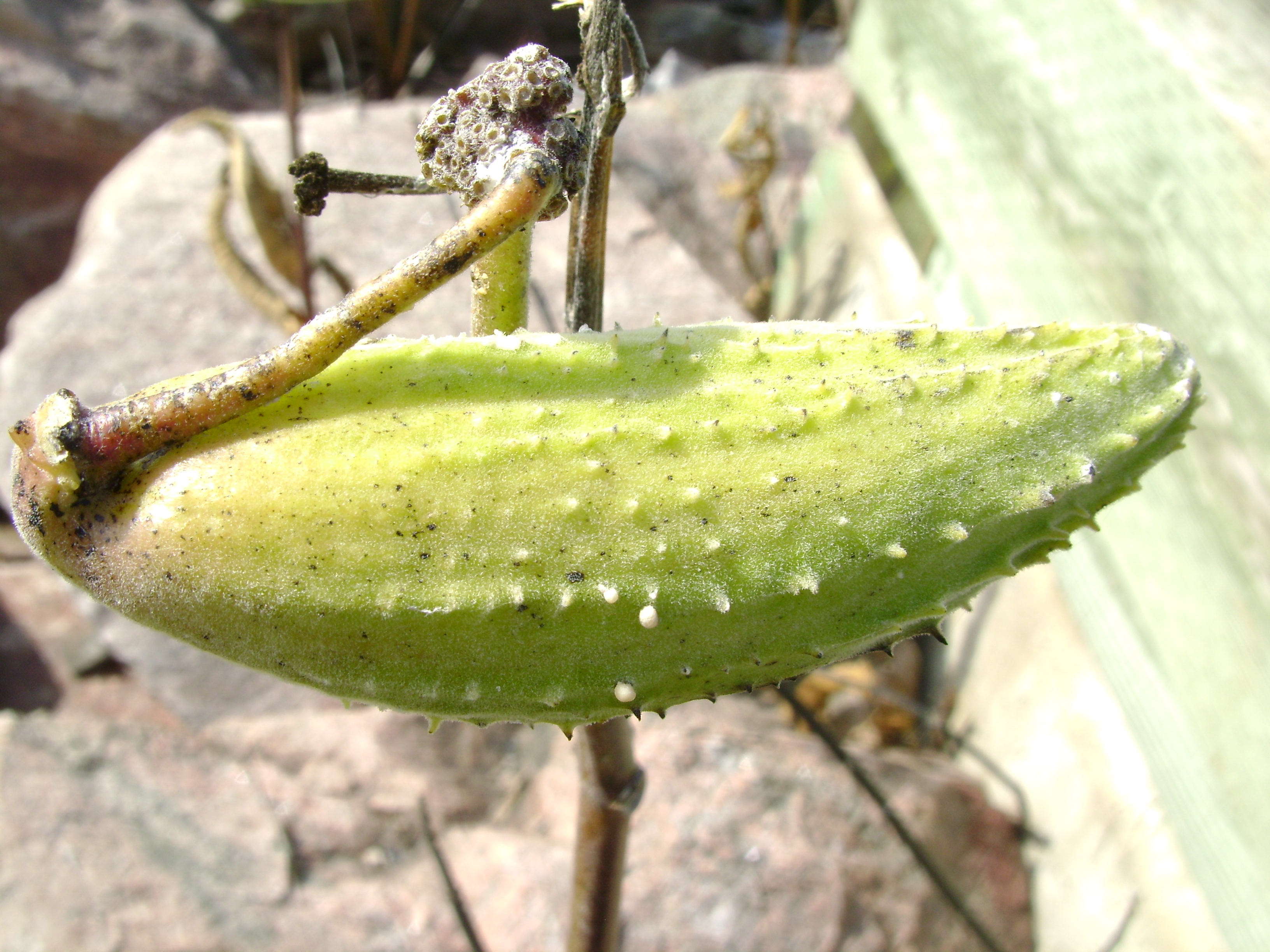 Fruit (follicle) of Common Milkweed (Asclepias syriaca). Plant growing through big rocks near the St-Lawrence River, in Québec City.